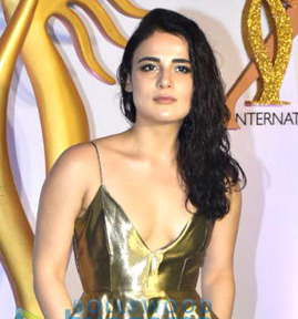 Radhika Madan graces the green carpet of IIFA Rocks 2019